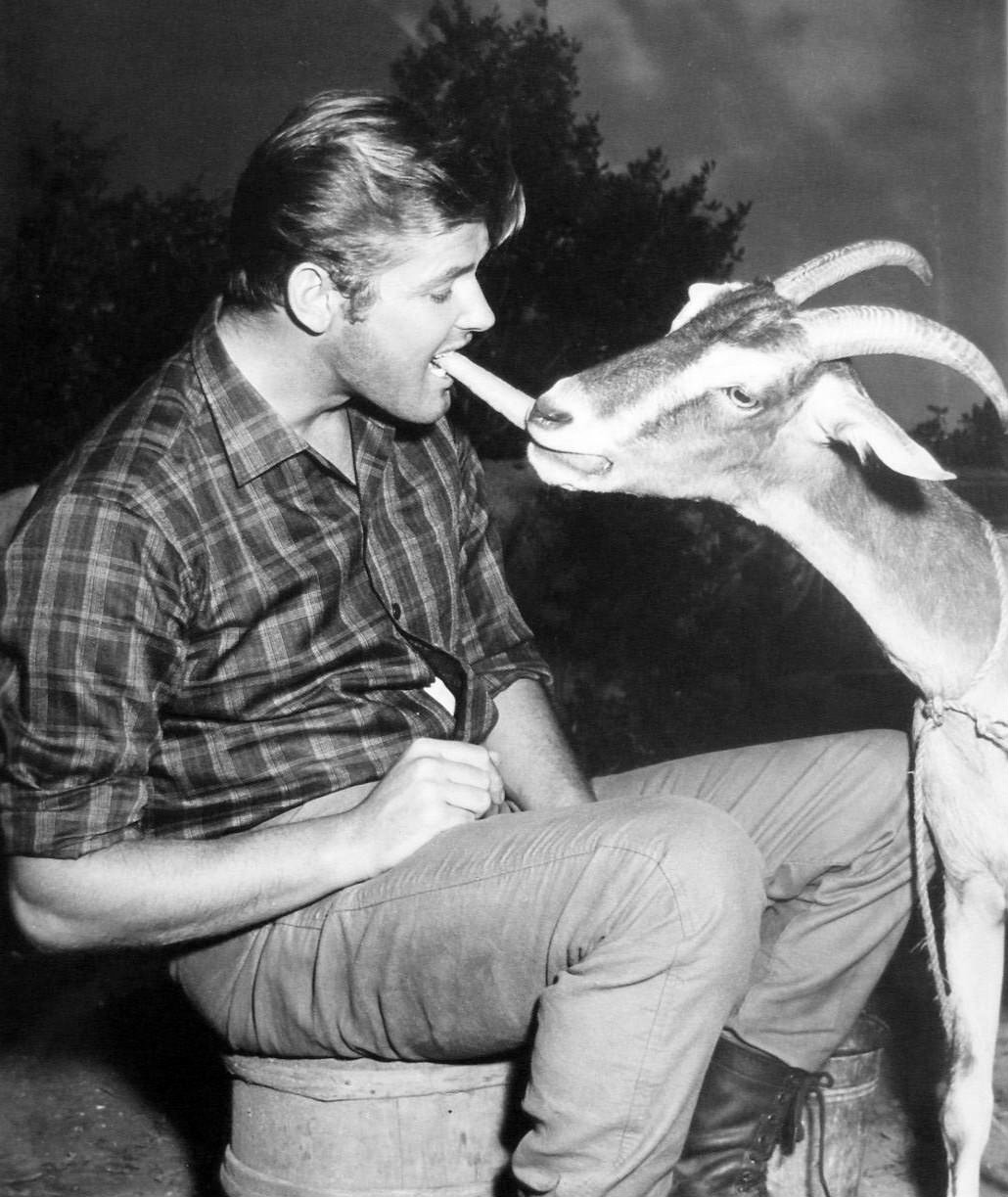 Photo of Roger Moore on the set of the television program The Alaskans.